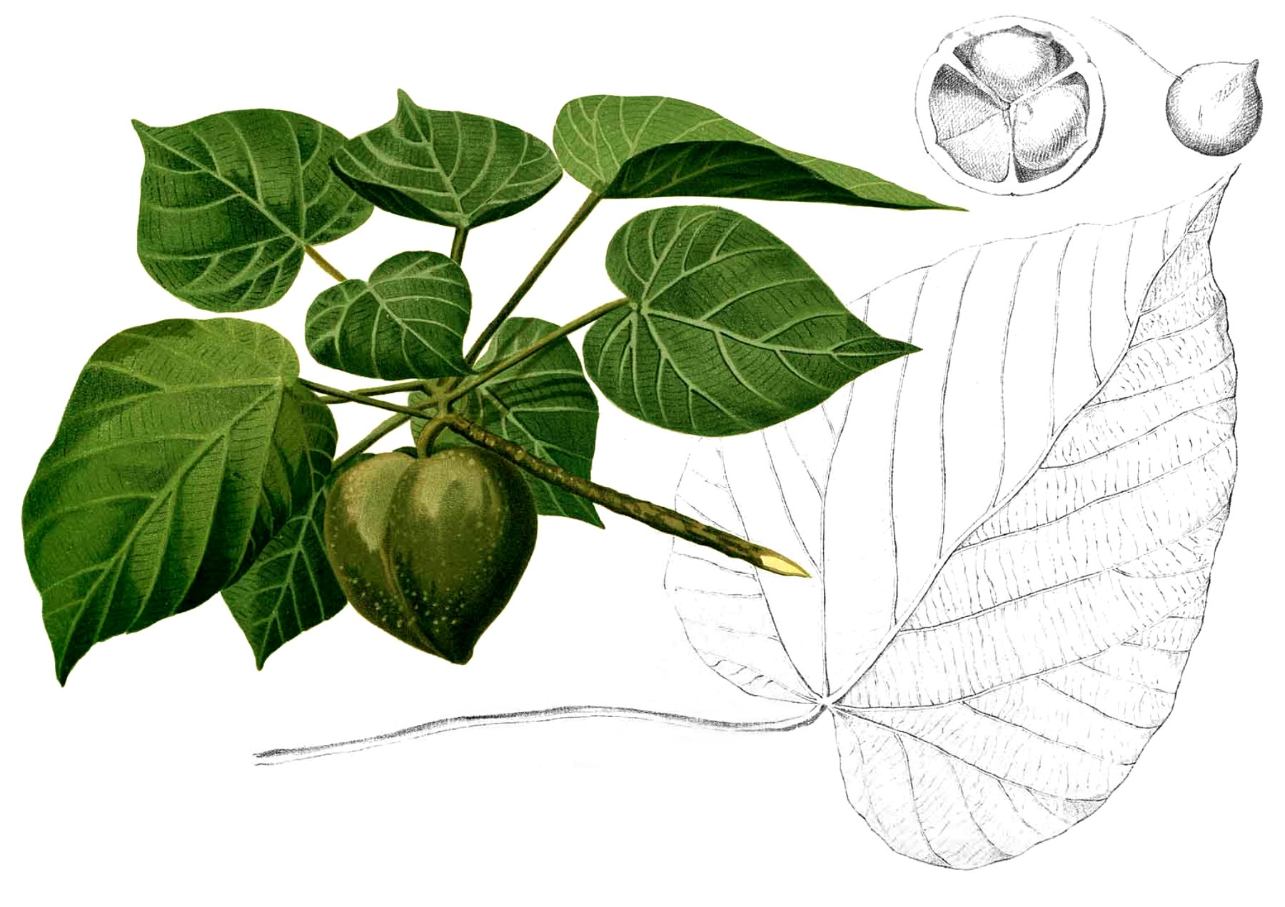 Plate from book